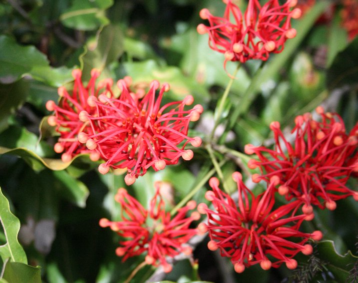 Stenocarpus sinuatus inflorescence, Maranoa Gardens June 2006 photo, Cas Liber